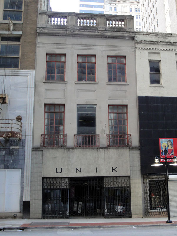 Exterior view of the Singer Building on Elm Street in downtown Dallas, Texas.